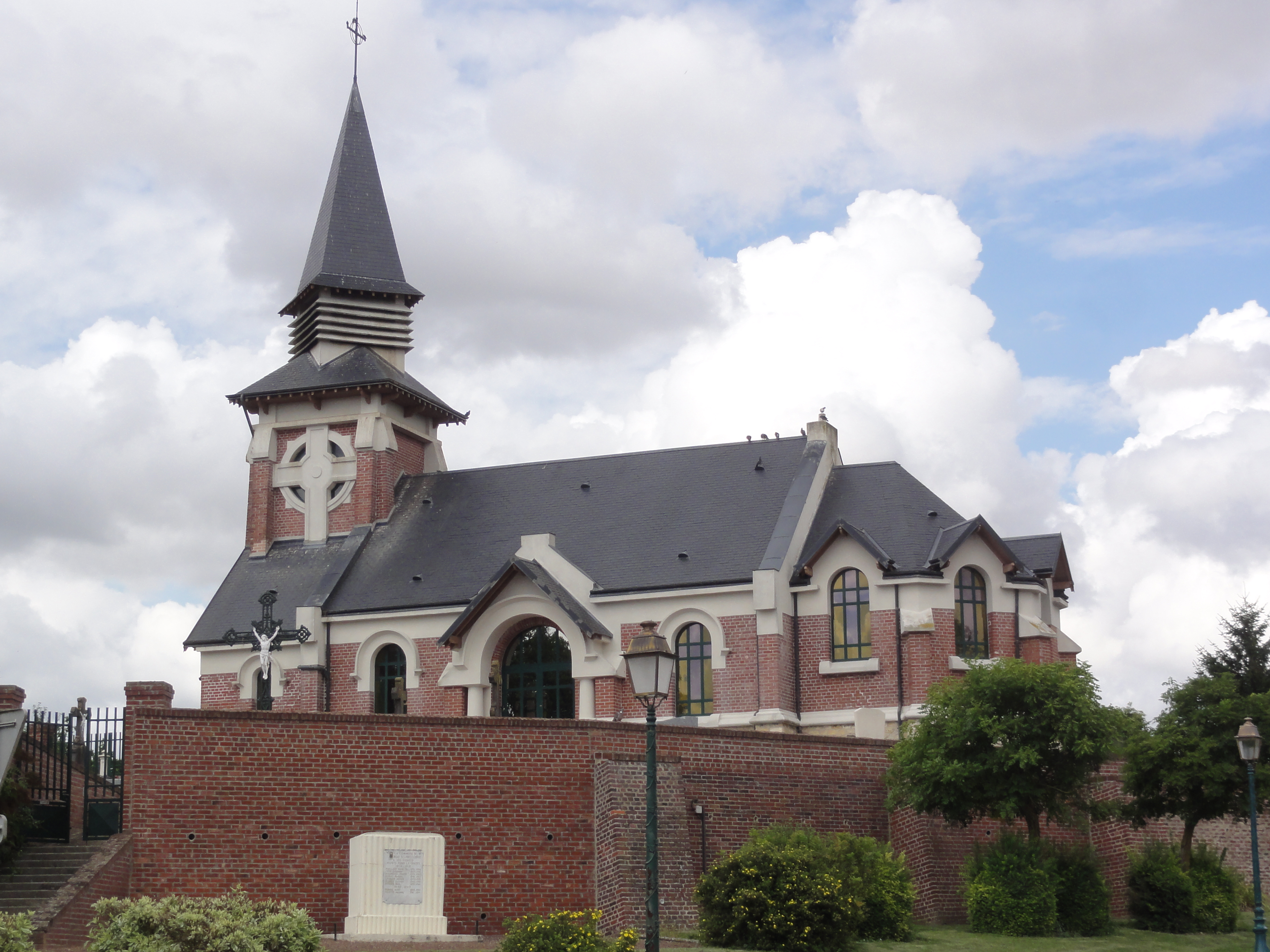 Bray-Saint-Christophe (Aisne) église Saint-Christophe